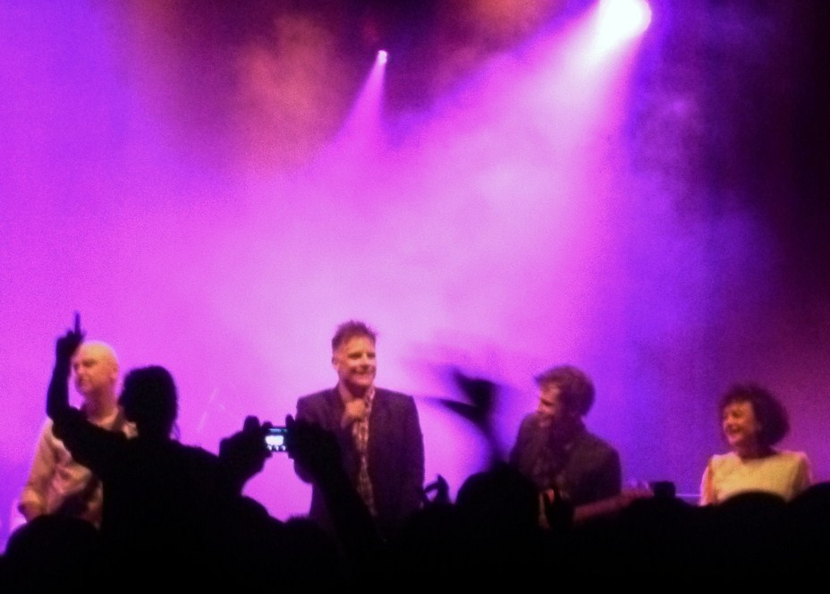 Deacon Blue